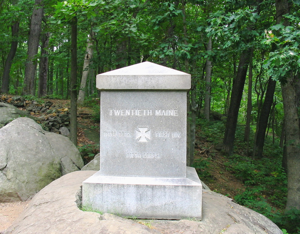 20th Maine Volunteer Infantry Regiment monument, Little Round Top, Gettysburg Battlefield, Gettysburg, Adams County, Pennsylvania. taken by me,6 Sept. 2004.